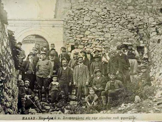 Greeks in Himarra 1912